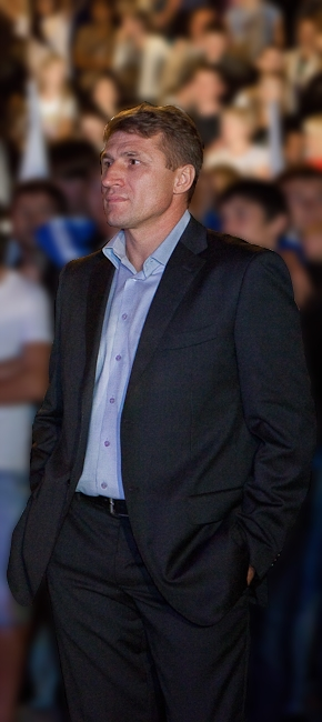 Veretennikov Oleg